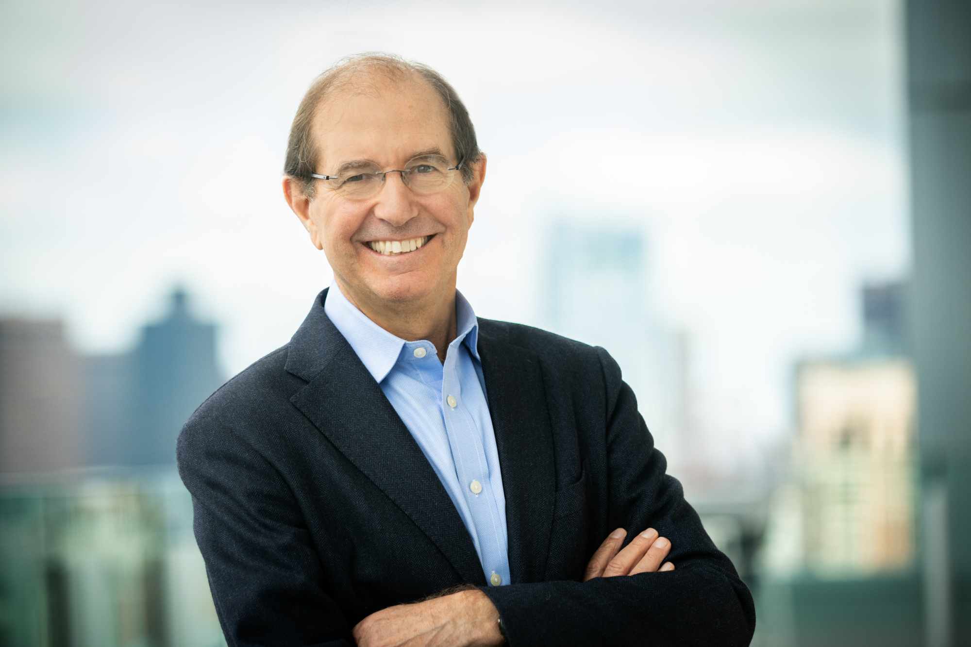 Silvio Micali- taken by Algorand